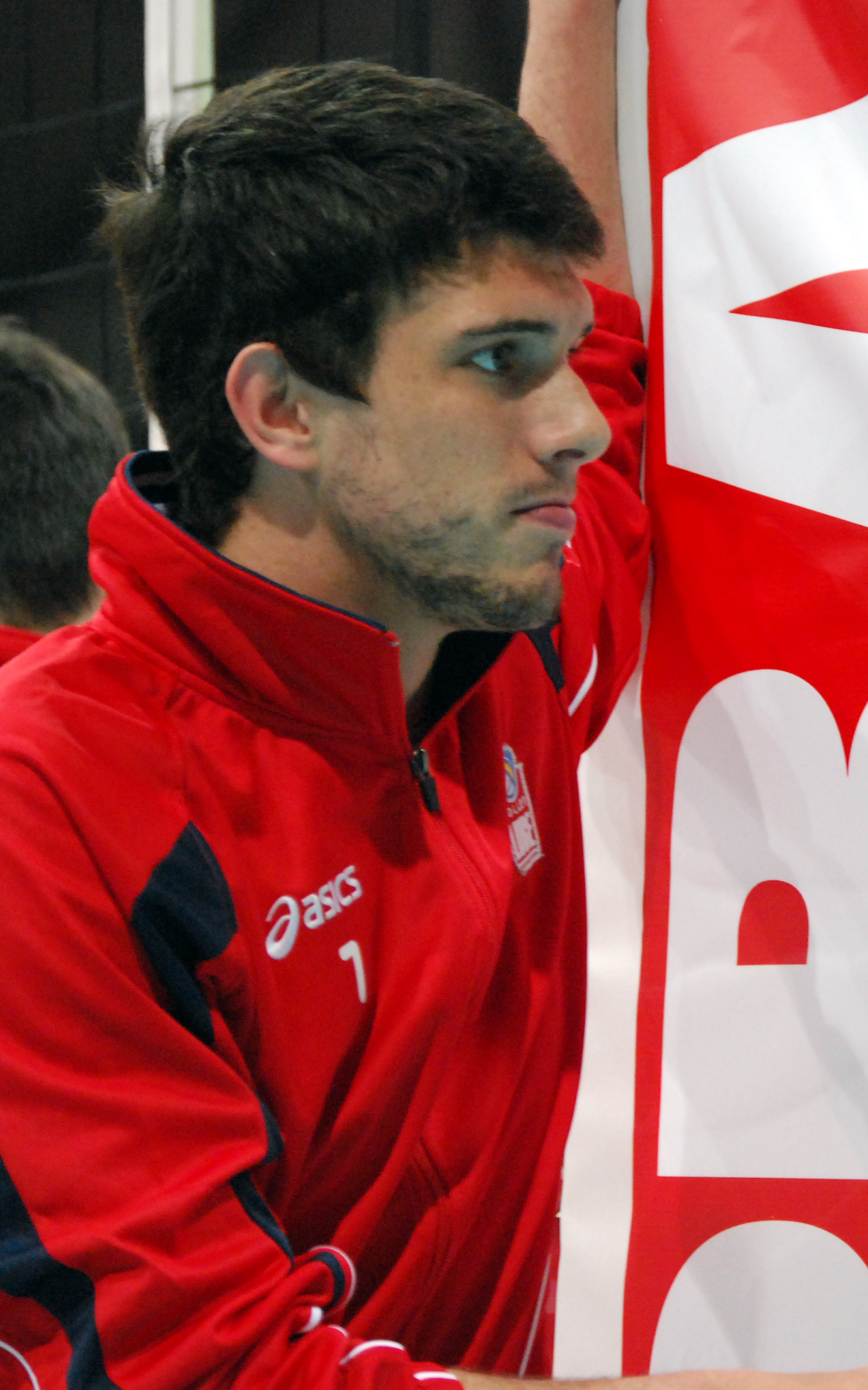 I took this photo during a volleyball match in Piacenza